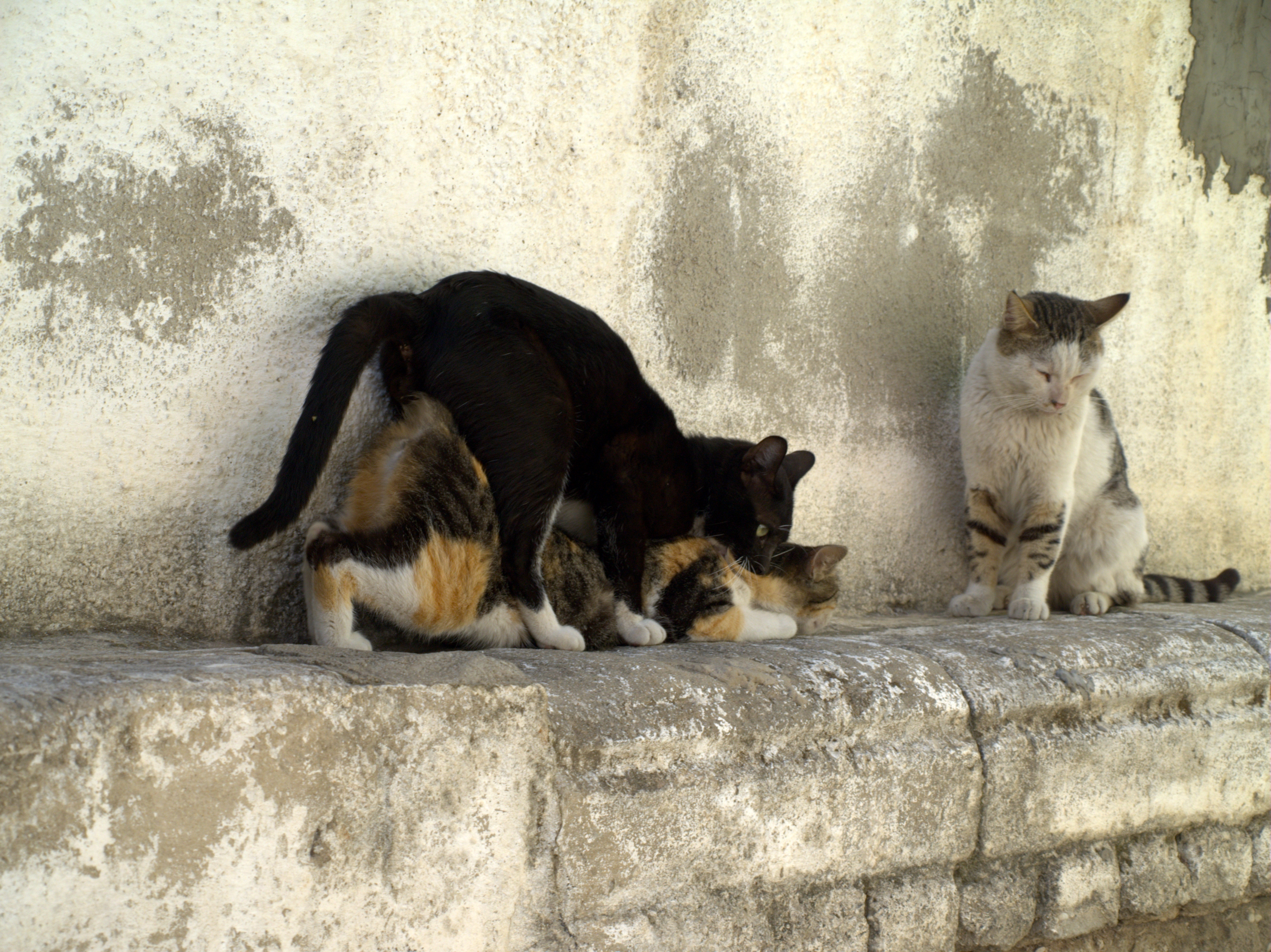 Two alley cats mating. The male Tom bites the scruff of the female's neck as she assumes position. Another cat sits nearby.